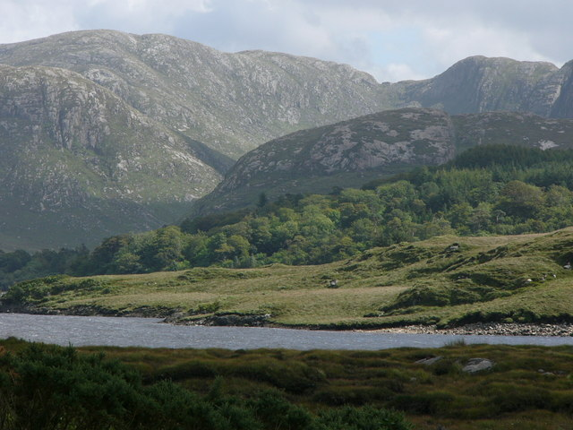 View across Dunlewy Lough Hills surrounding the Poisoned Glen in distance